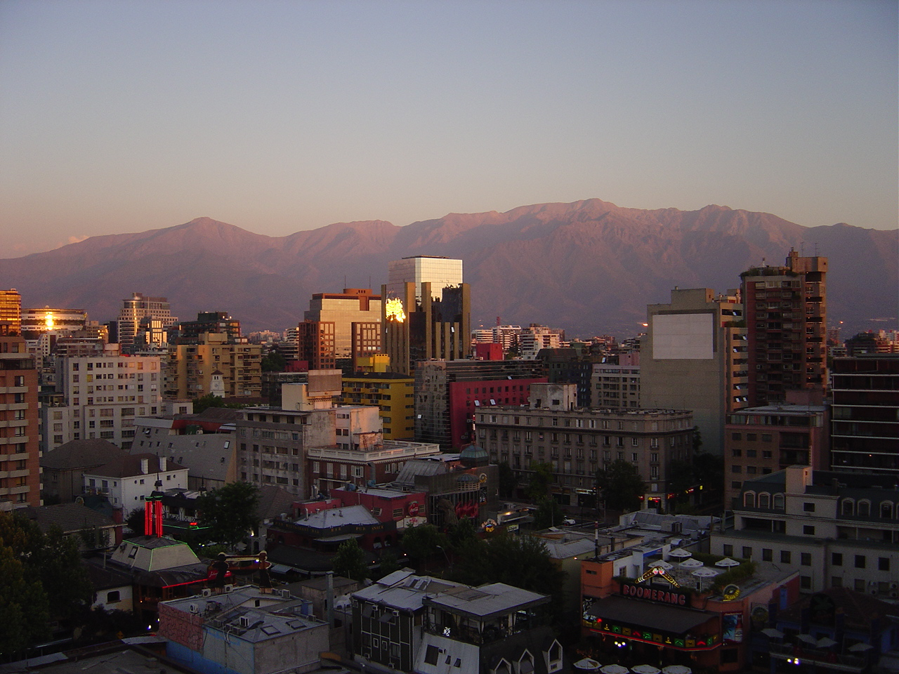 Santiago, Chile, 2004-12-25.